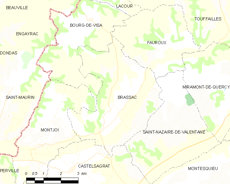 Map of French municipality Brassac